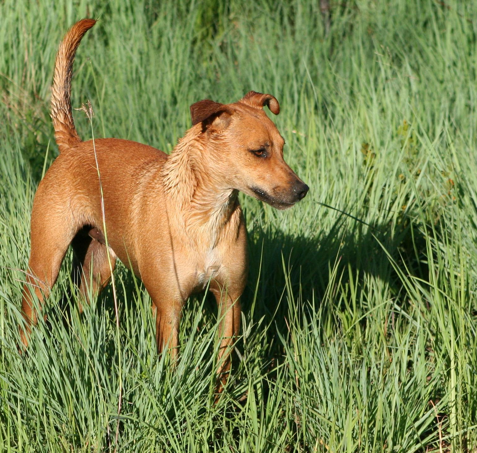 Taken by Rudolph Botha, 2005/12/04, Pretoria, South Africa.